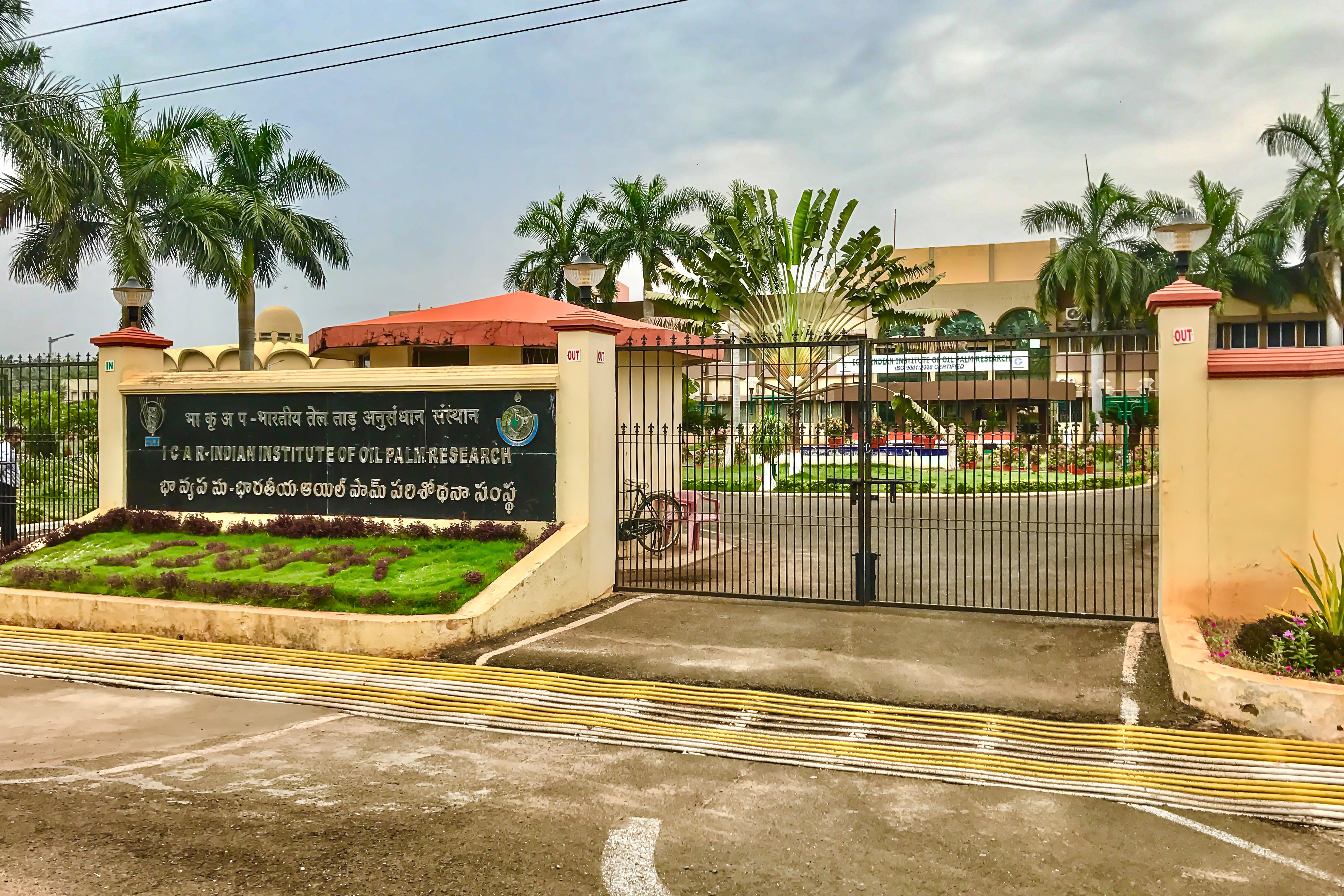 Research Institute Building in Pedavegi, Eluru